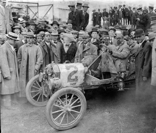 A photo of the 1909 Ford Model T at the conclusion of the 1909 Ocean-to Ocean race from New York to Seattle